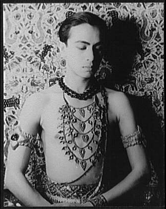 Title: Portrait of Ram Gopal Abstract/medium: 1 photographic print : gelatin silver.